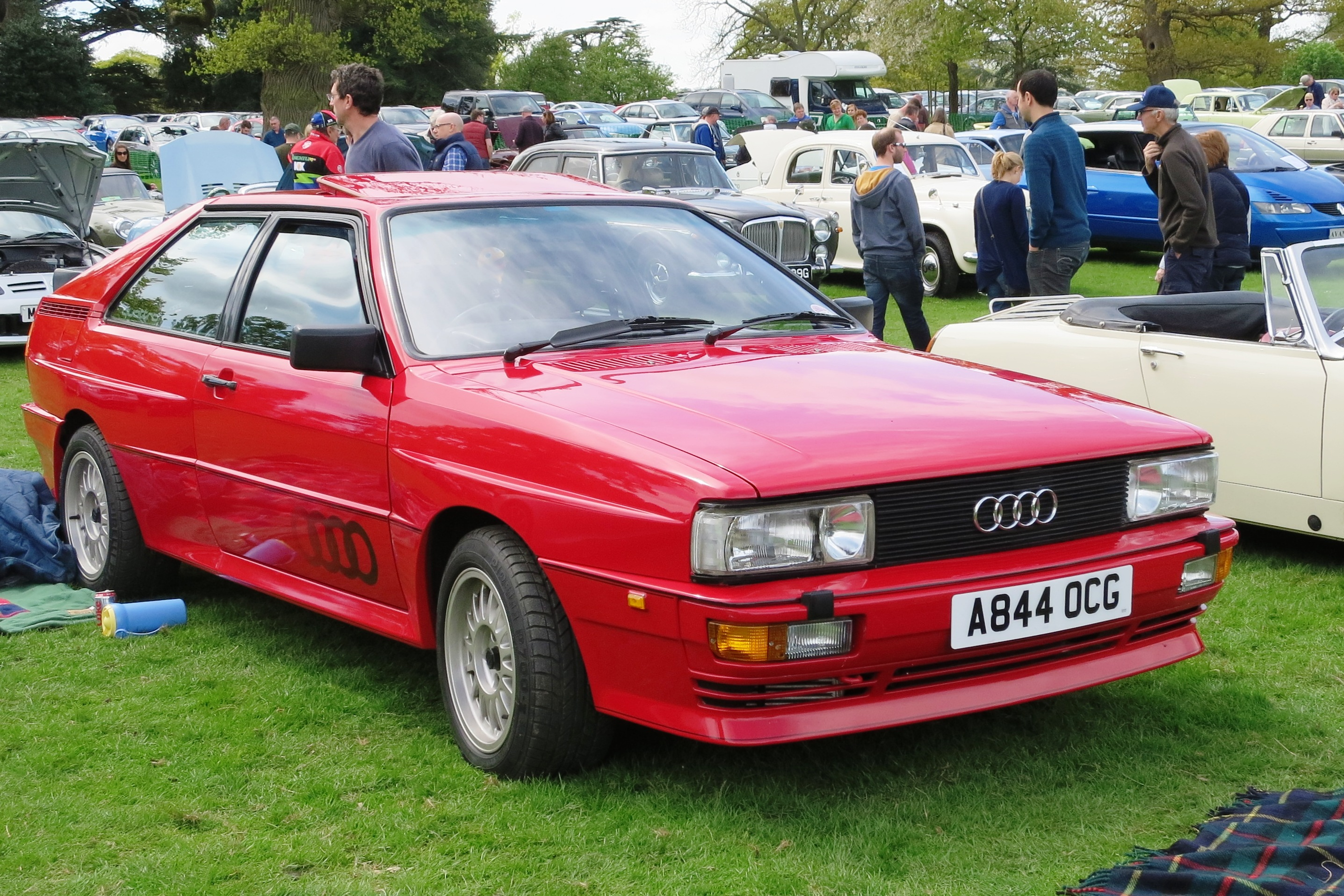 Audi Quattro (1984)